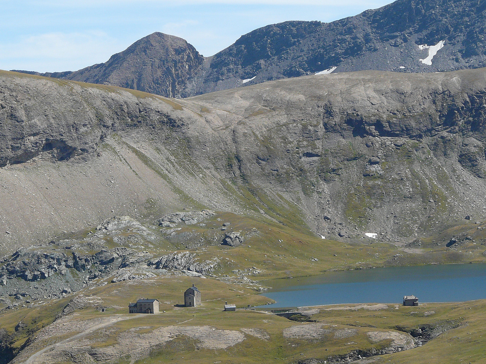 Miserin lake and hut (left) in the Graian Alps in Aosta valley, Italy.